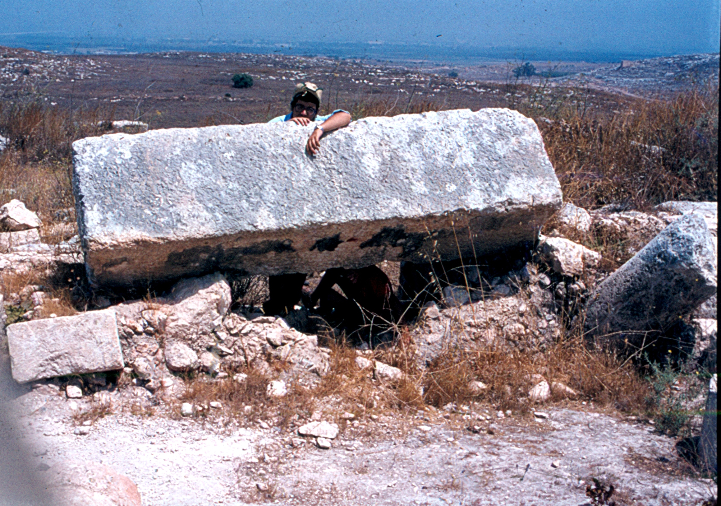 Roman_road_12_mills_from_Bet_gubrin